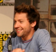 Michael Weston at Comic-Con 2007